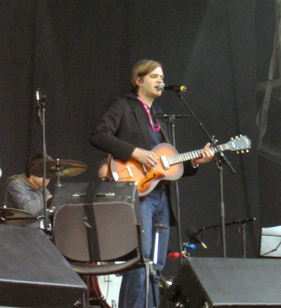 Kante (band) at the Berlin 05 festival